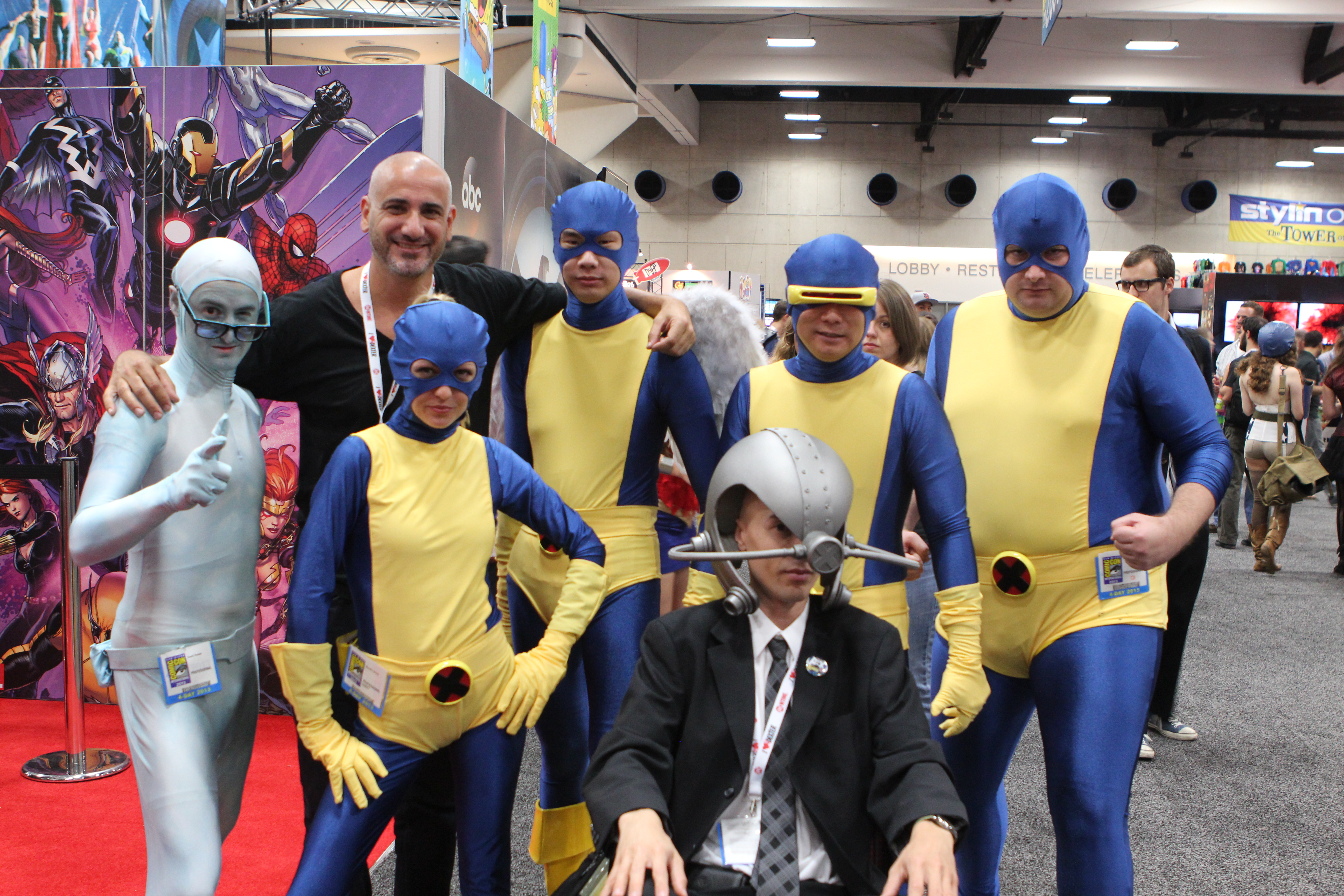 The Original X-Men (with Marvel Editor in Chief Axel Alonso)